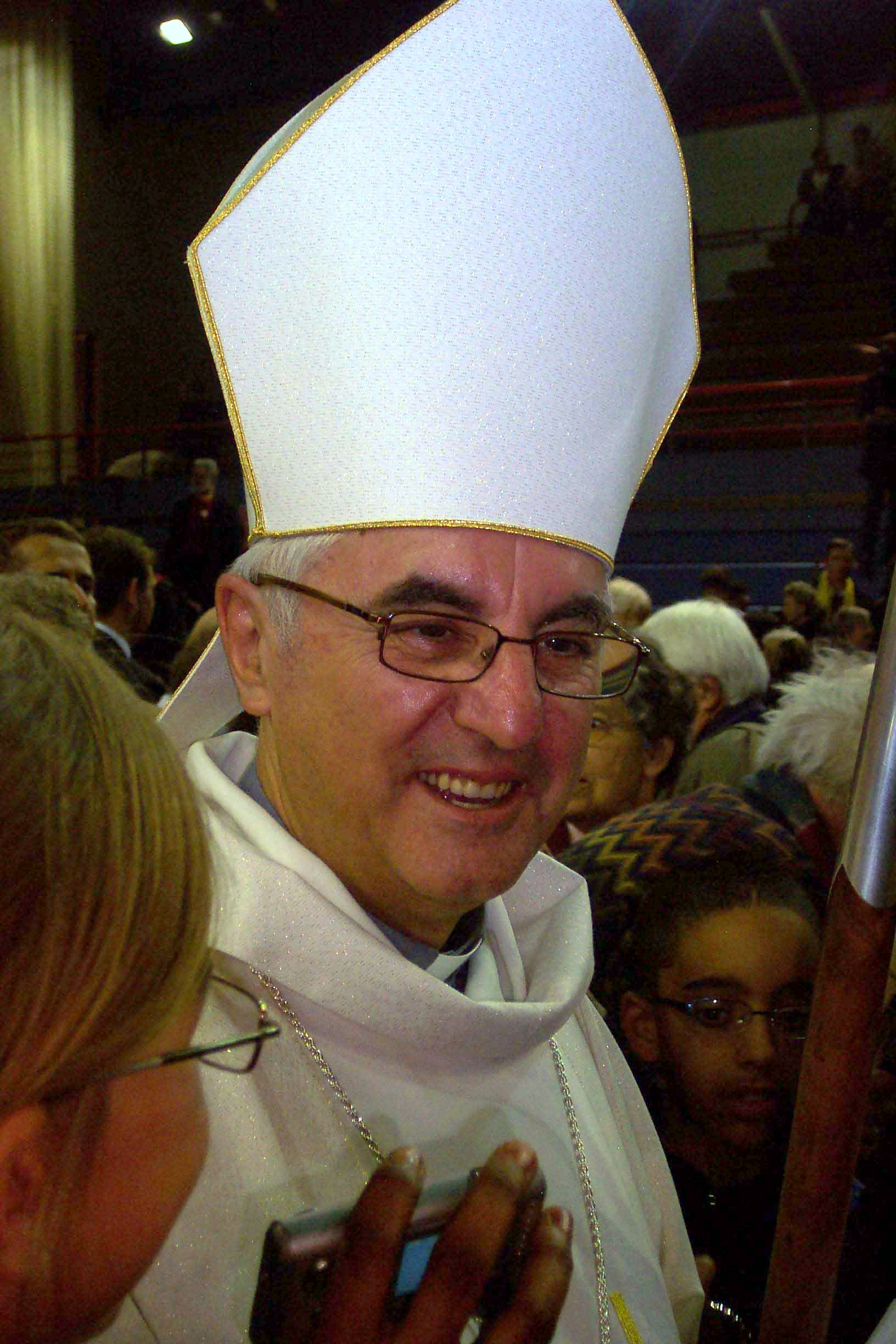 Mgr Michel Santier, bishop of Creteil (France)